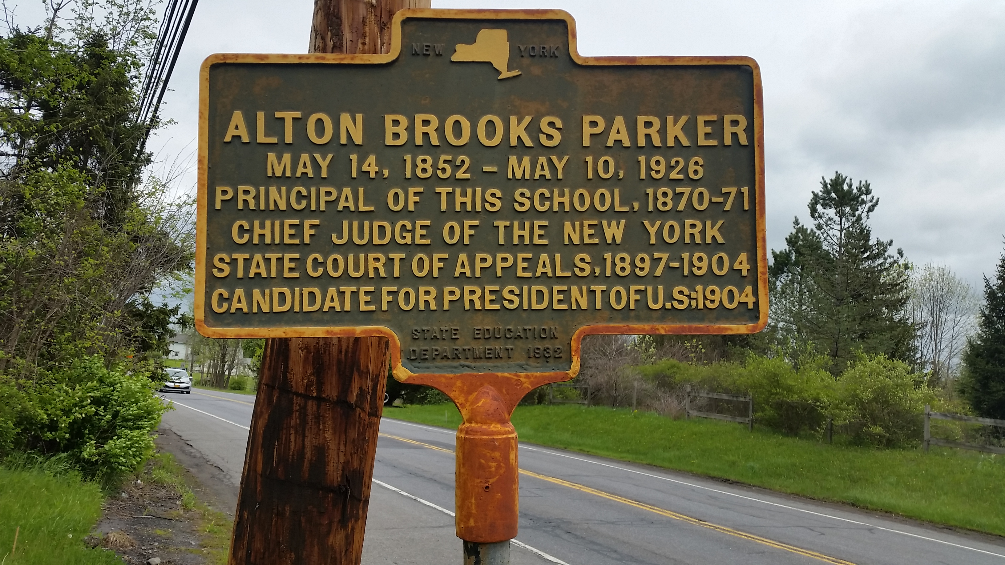 NY State historical marker for the school where Alton B Parker was principal